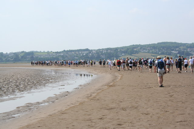 Morecambe Bay Walk Having forded the River Kent we then headed for Kents Bank. A couple of hours later and the water would be over our heads!